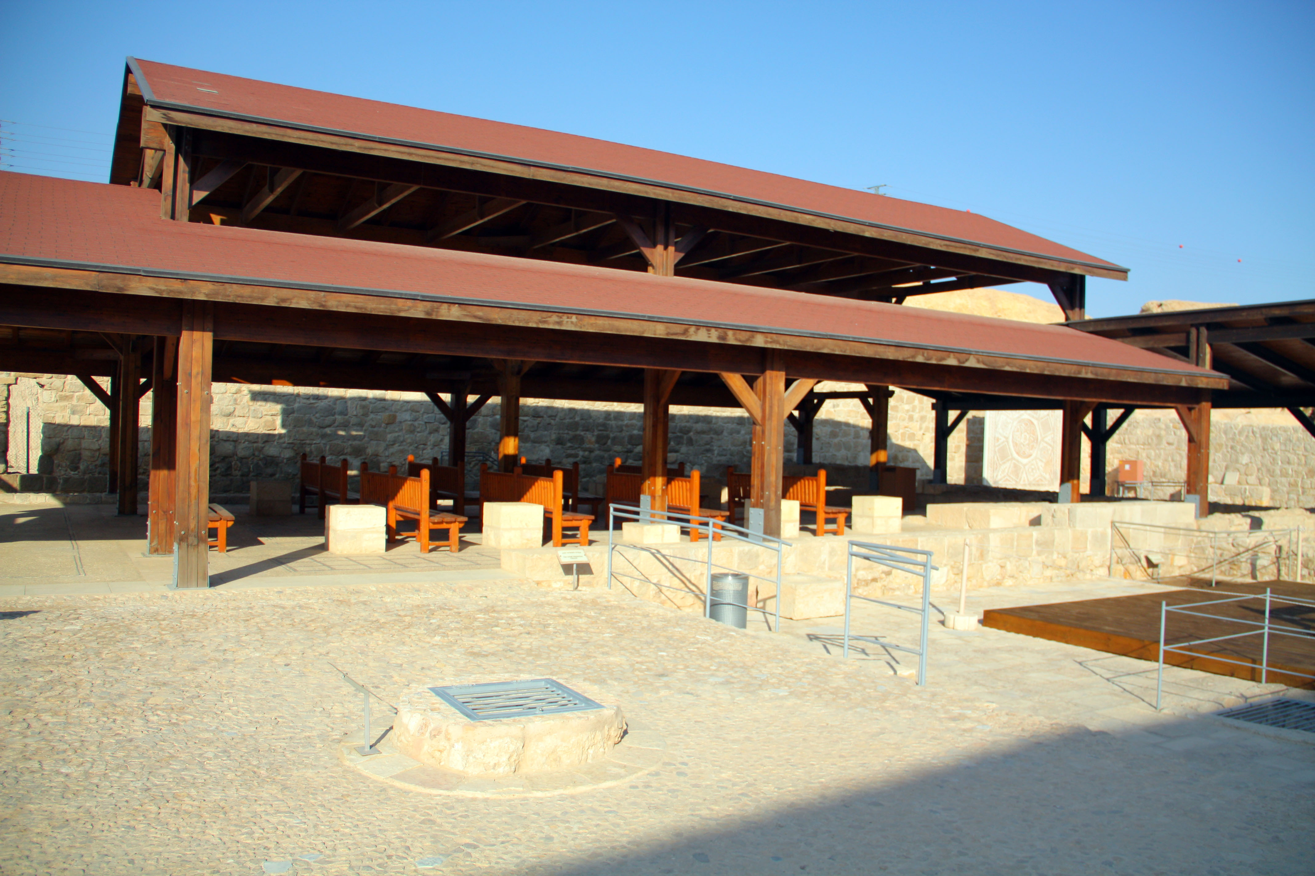 reconstracted Byzantine church, Good Samaritan Inn